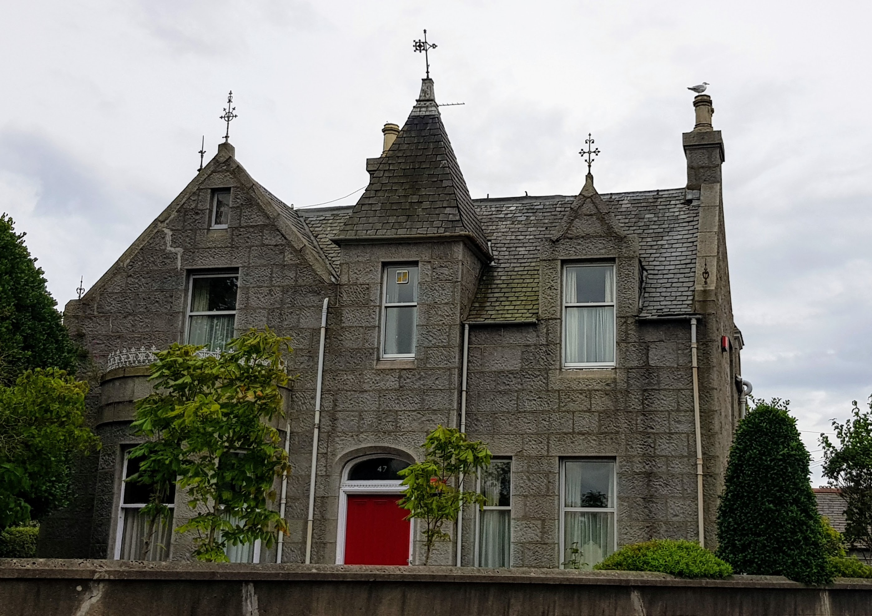 47 Powis Terrace, Aberdeen, formerly known as Crighton Villa, the family home of the Aberdeen cinematographic pioneer, William Dove Paterson